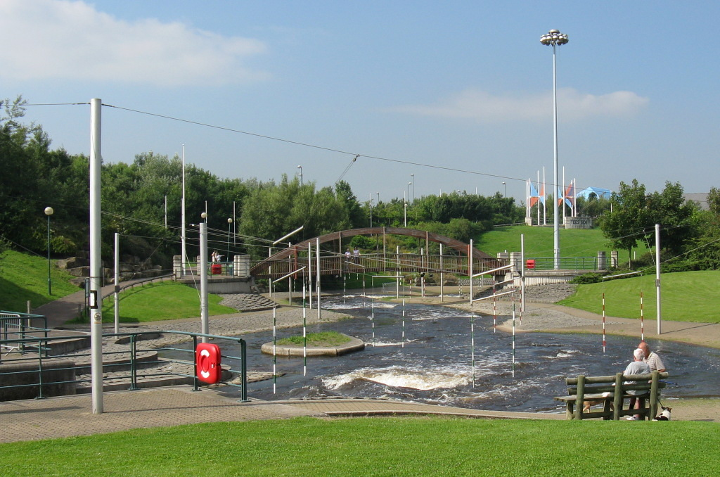 Top end of Tees White Water Course at Stockton-on-Tees on the border with Middlesbrough